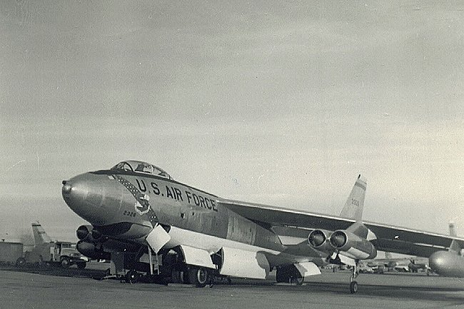 25th BS B-47E-35-LM Bomber. Tail number 52-326. Smoky Hill AFB, Salina Kansas 1956